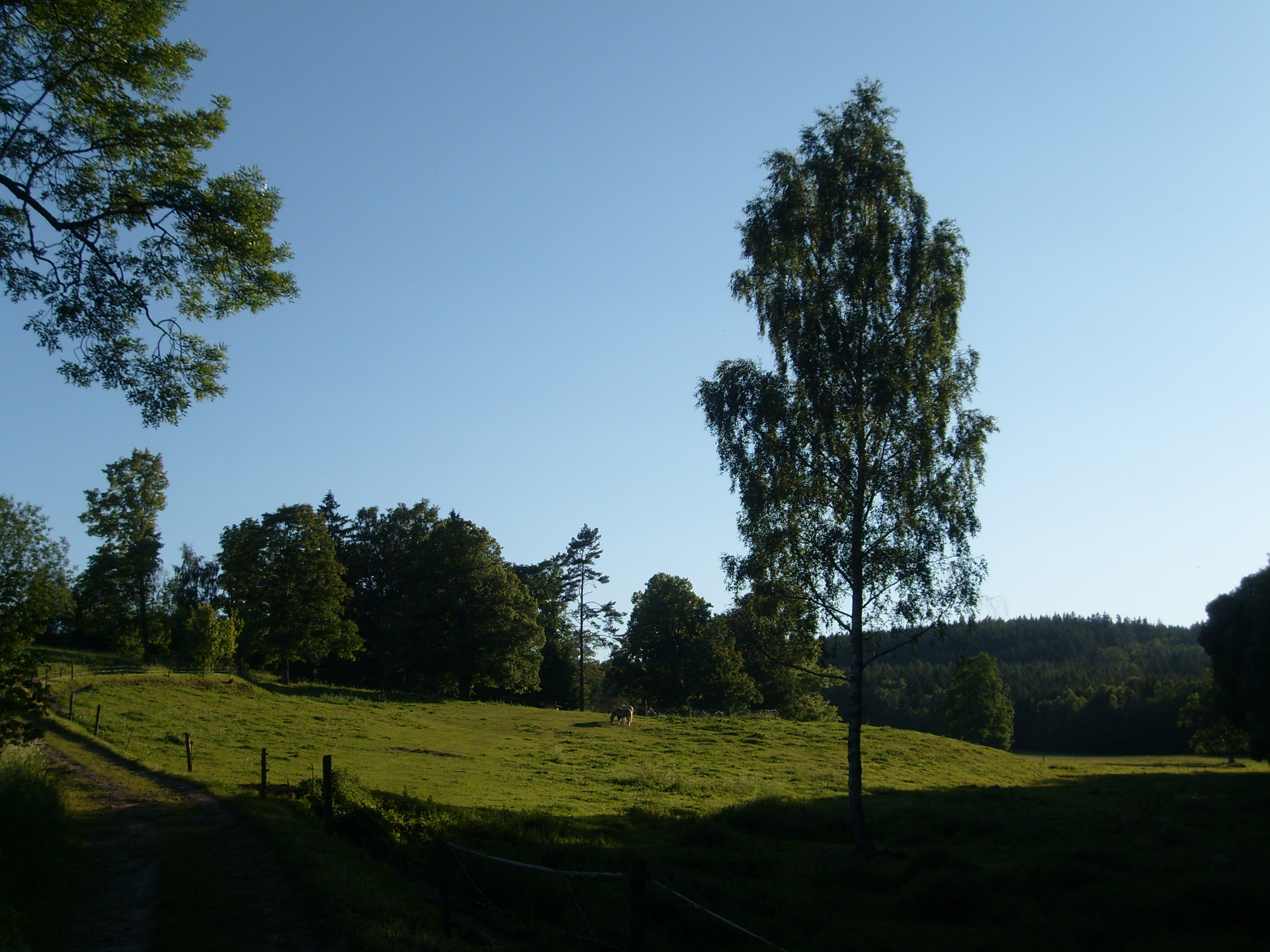 Libná